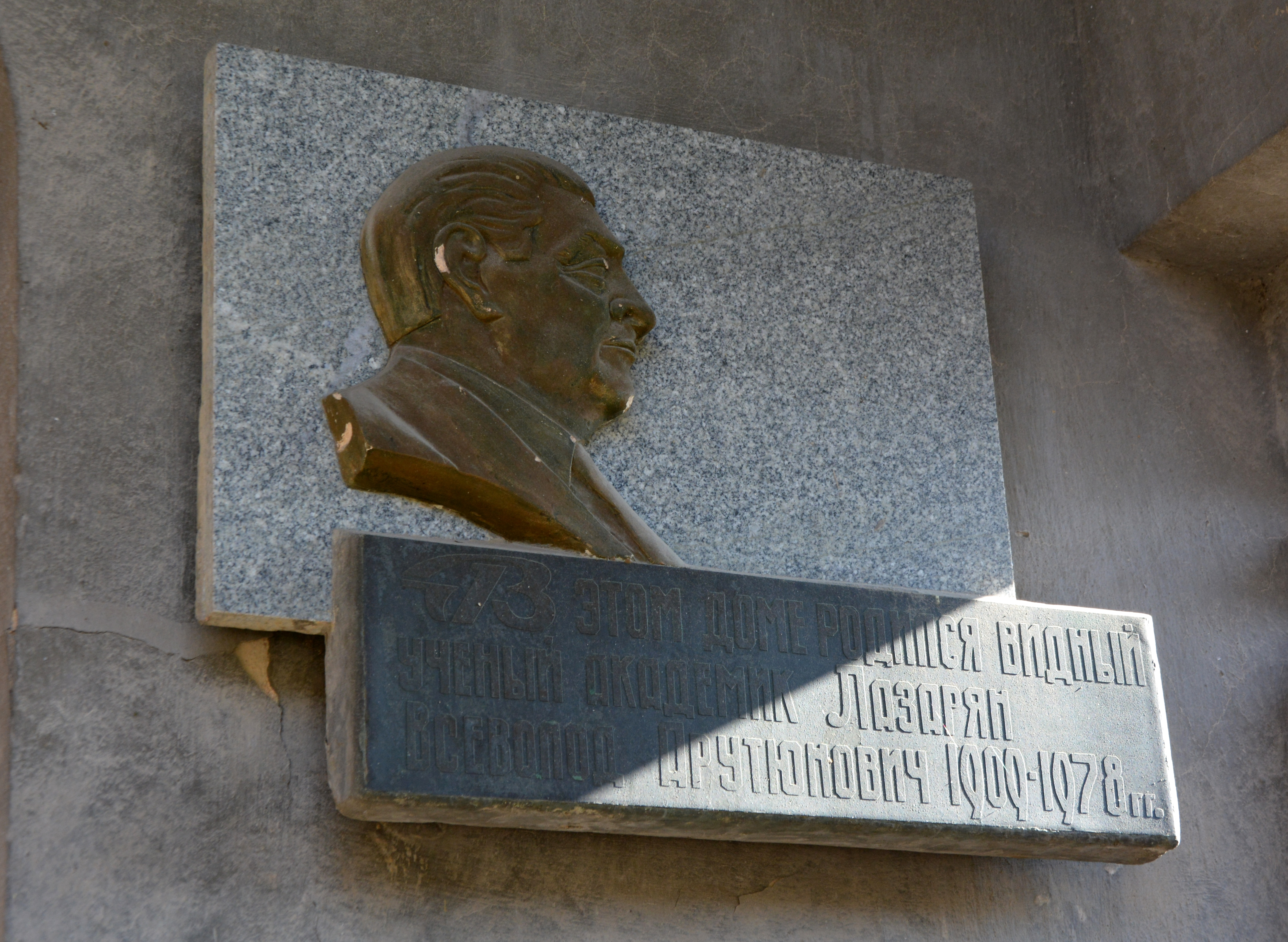 Memorial plaque to Vsevolod Arutyunianovych Lazaryan (1909-1978)-famous scientist-mechanical engineer, specialized in railroad dynamics, doctor of technical science, academician, author of more than 300 scientific works and discoveries. The plaque is placed at the building who he was born and lived in Orikhiv, district centre in Zaporizhzhia region in Ukraine